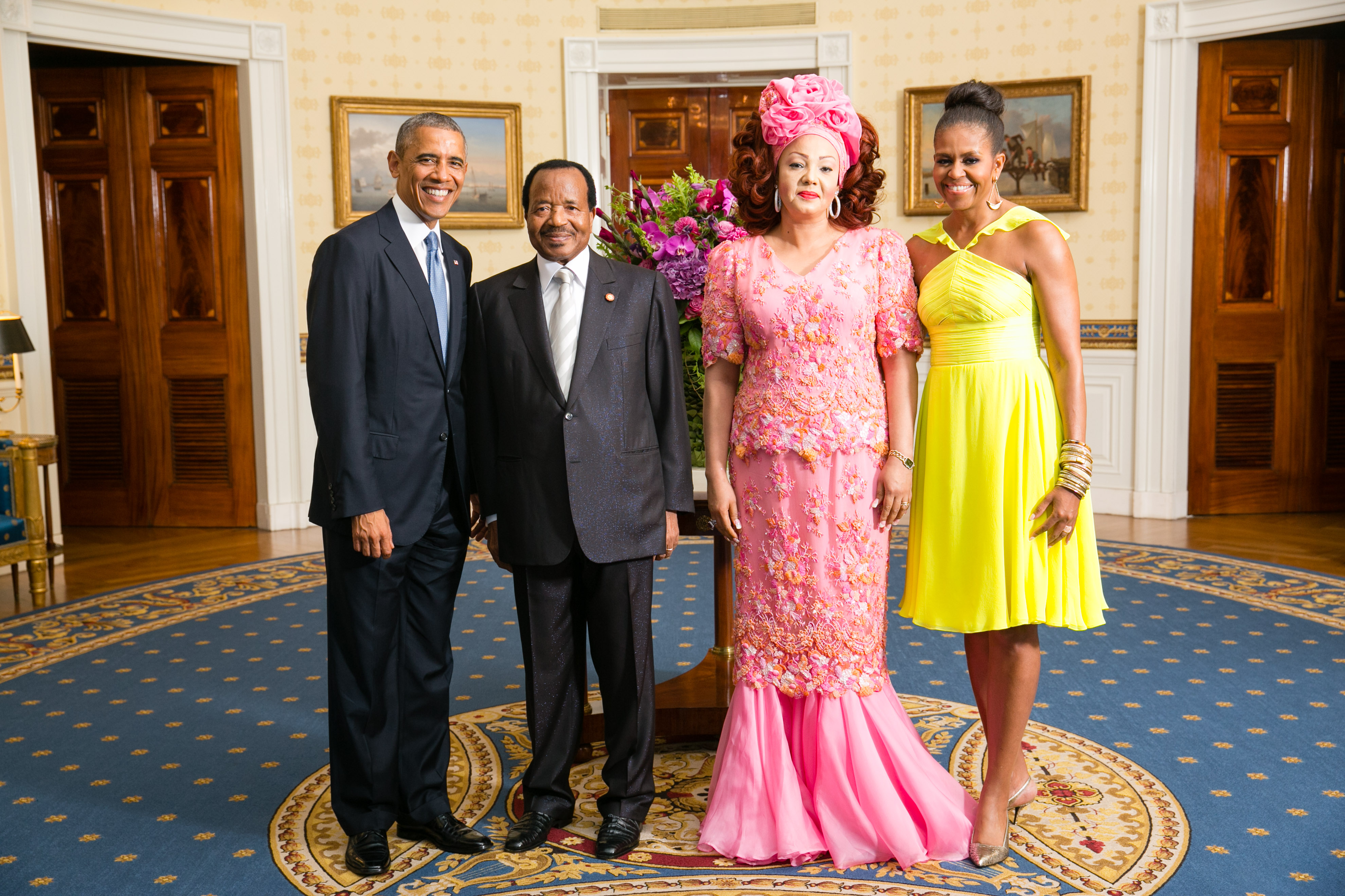 President Barack Obama and First Lady Michelle Obama greet His Excellency Paul Biya, President of the Republic of Cameroon, and Mrs. Chantal Biya, in the Blue Room during a U.S.-Africa Leaders Summit dinner at the White House, Aug. 5, 2014. [Official White House Photo by Amanda Lucidon] This official White House photograph is in the public domain from a copyright perspective, so while restrictions such as personality or privacy rights may apply, in general, manipulations are allowed.